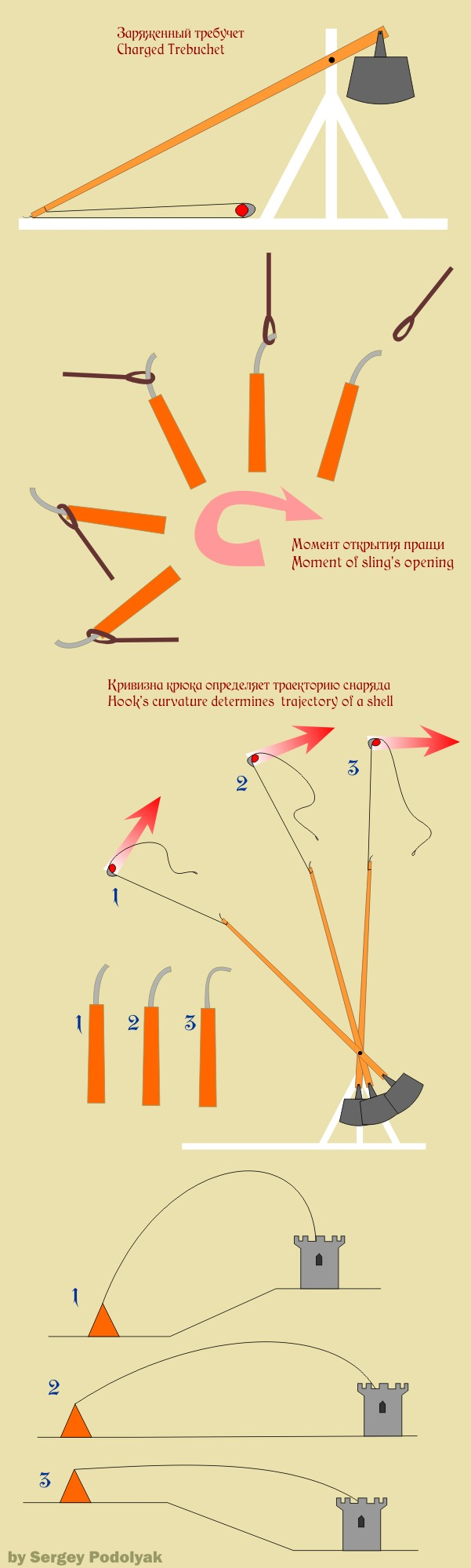 principles of working of trebuchet - medieval siege machine